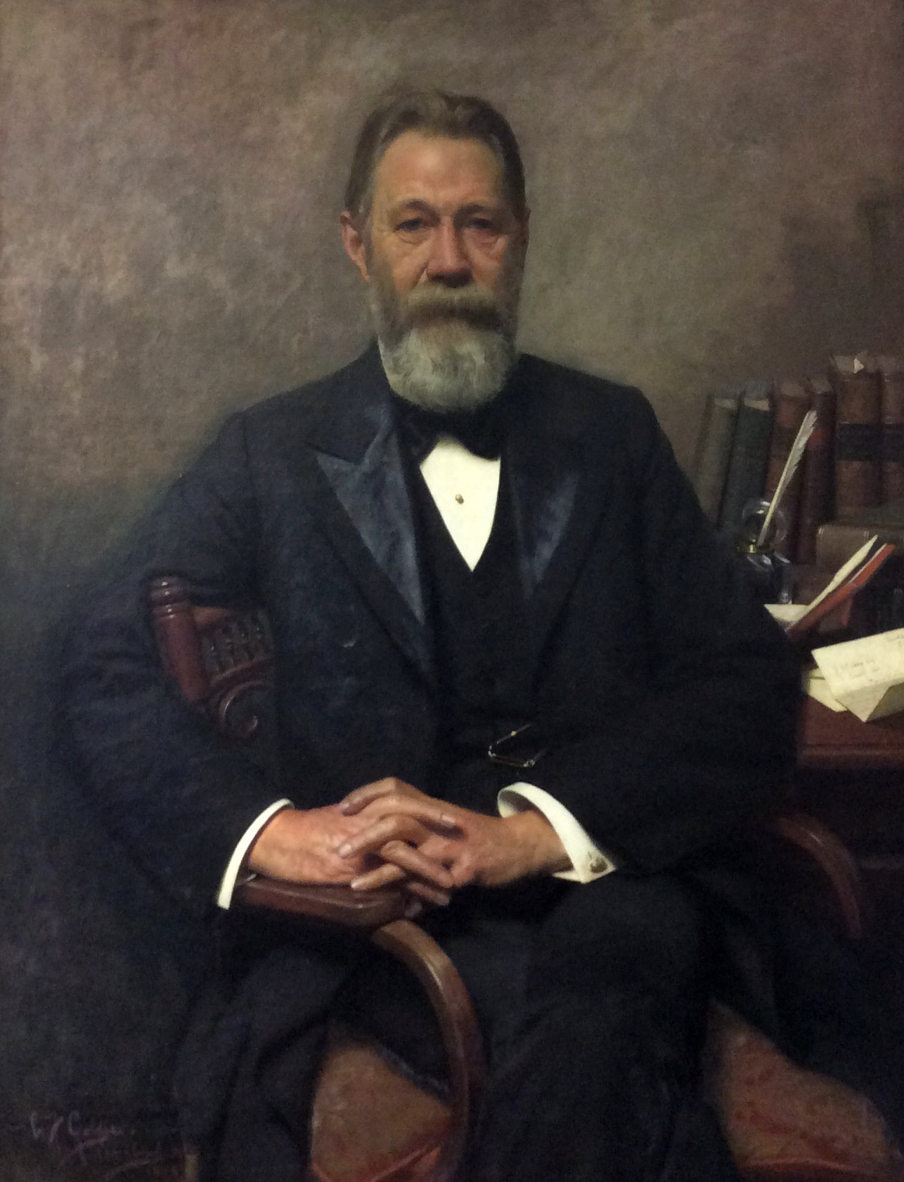 Photo of a portrait of Thomson W. Leys by Charles Goldie